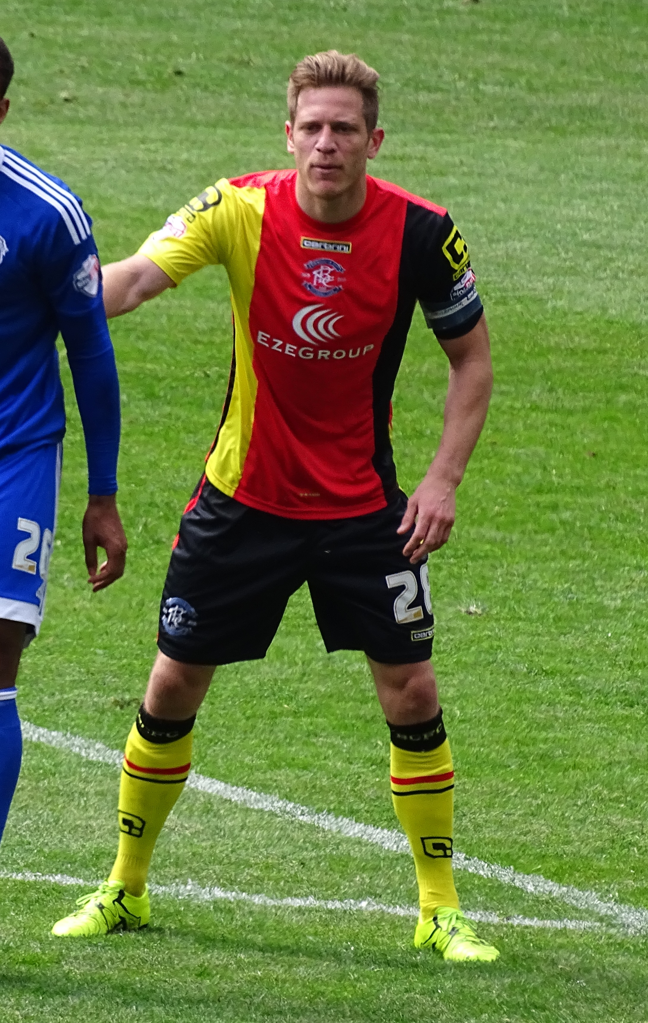 Footballer Michael Morrison playing for Birmingham City.